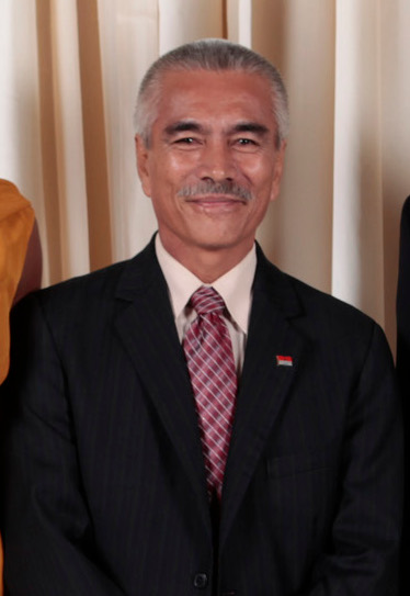 Anote Tong